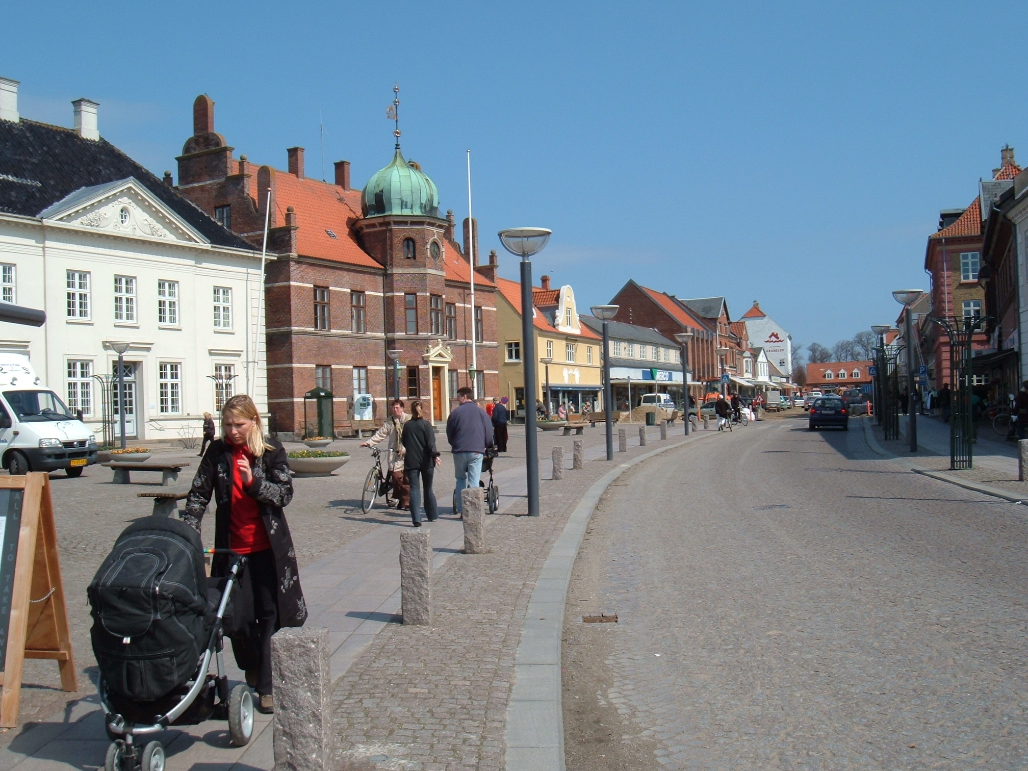 Photograph of the Main street in Stege, capital of the island of Møn, Denmark, showing Town Hall. Taken by contributor spring 2006.